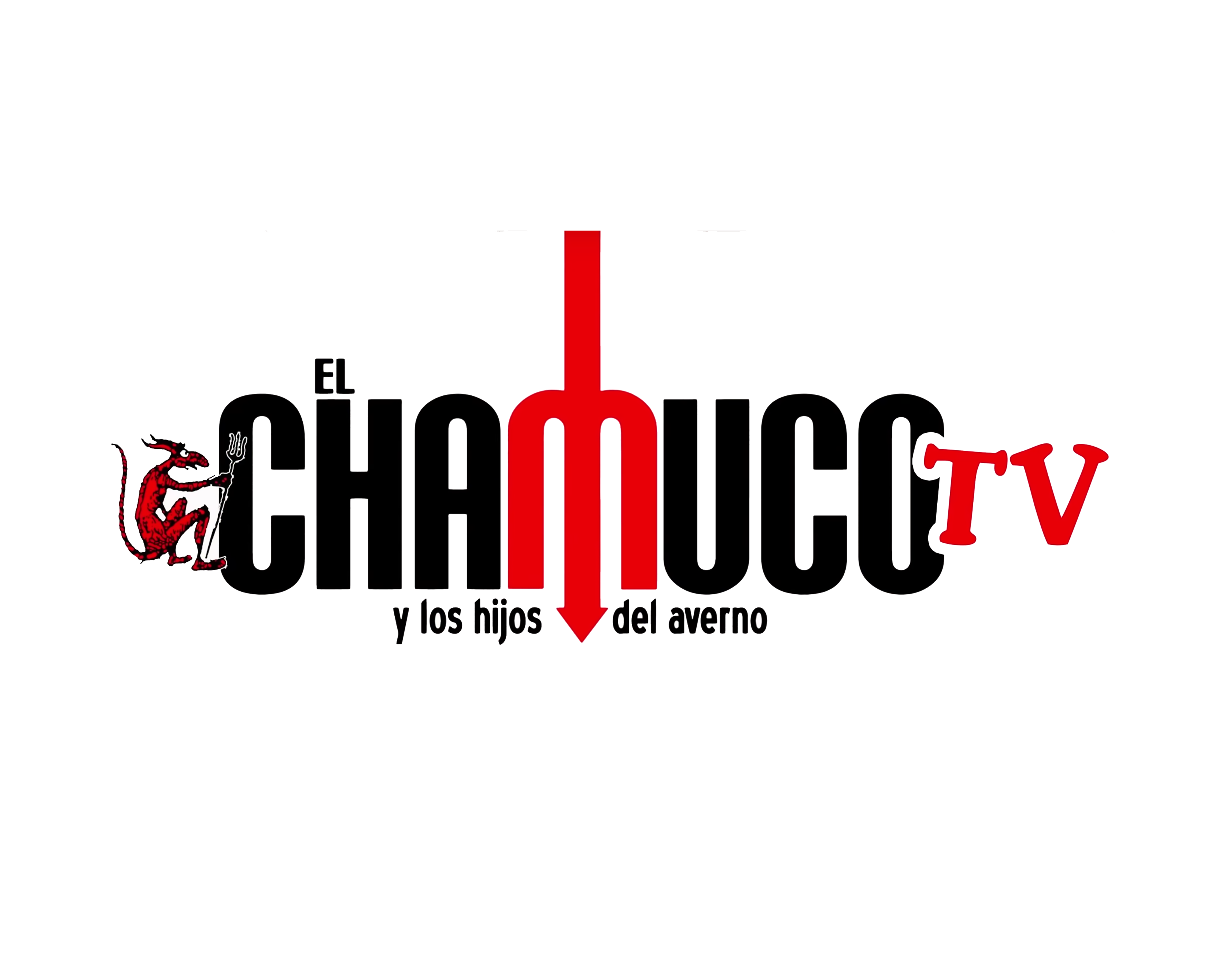 Chamuco TV